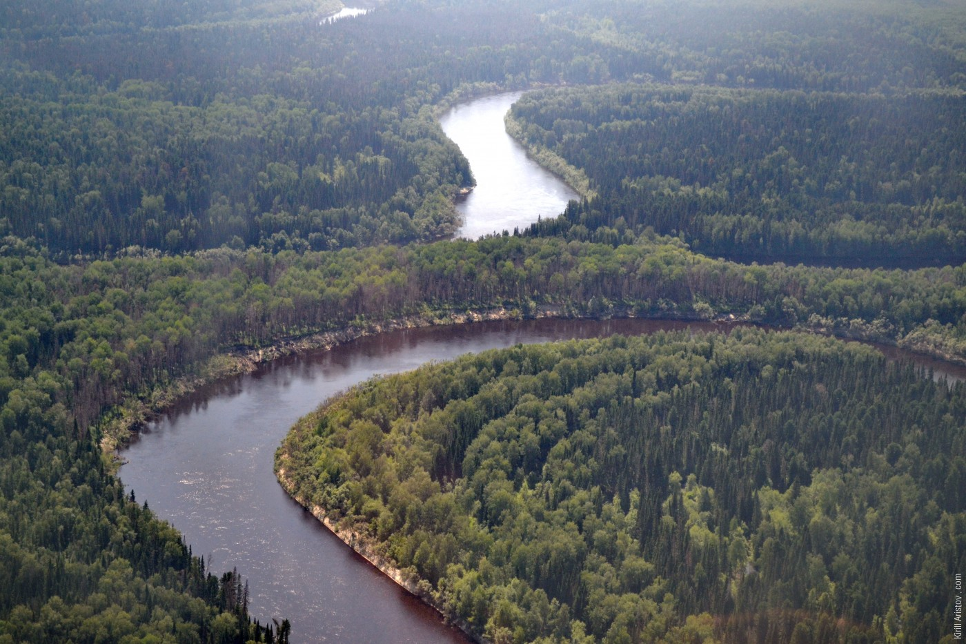 Demyanka river, Siberia, Russian Federation